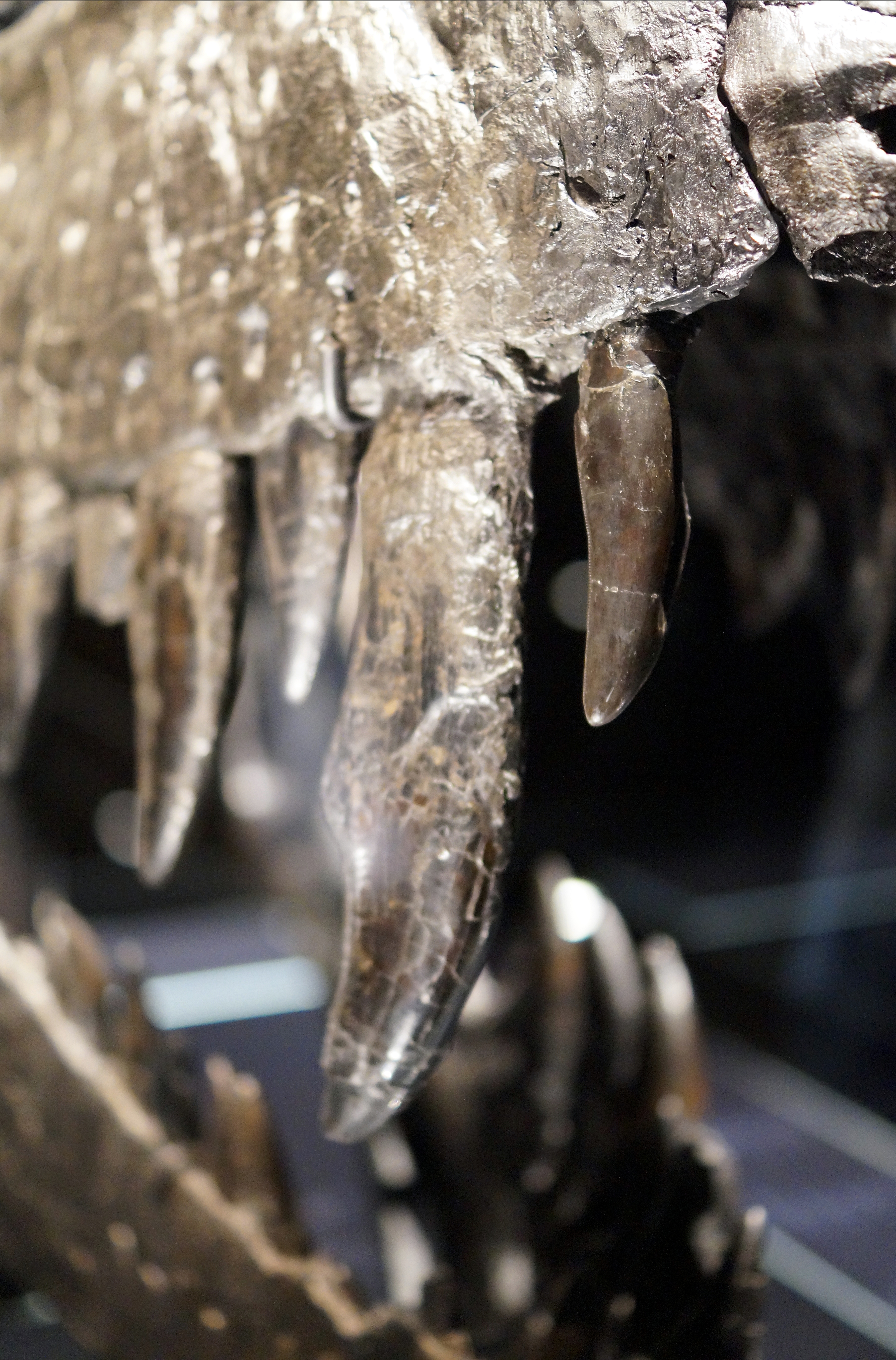 The oversized tooth which had not fallen out with periodical dentitions and might have caused big pains by the blocked eruptive tooth